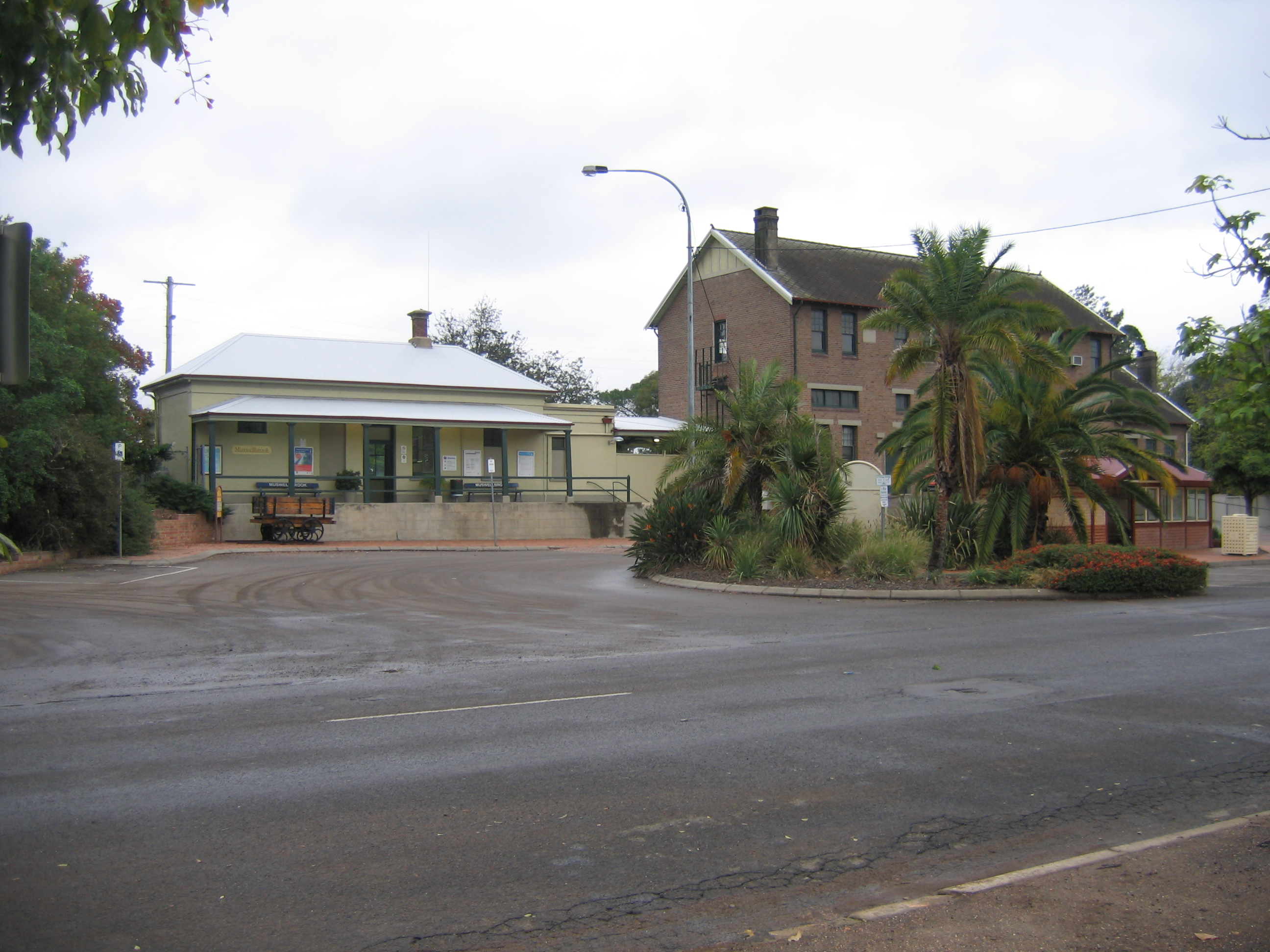 Muswellbrook railway station viewed from the street